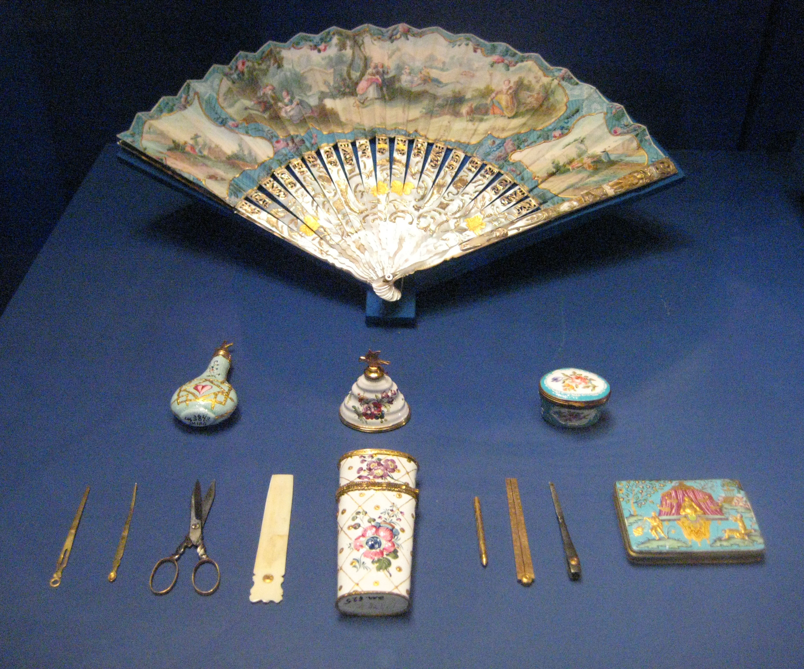 A collection of 18th century women's accessories: Top row: A folding hand fan. France, mother of pearl, paper, metal, painted in gouache 2nd row: Perfume bottles, England, copper enamel; Mushechnitsa [sic], England 3rd row: Vanity case and the items it contains: scissors, ruler, tweezers, ear cleaner. England, copper enamel; Snuffbox. Europe